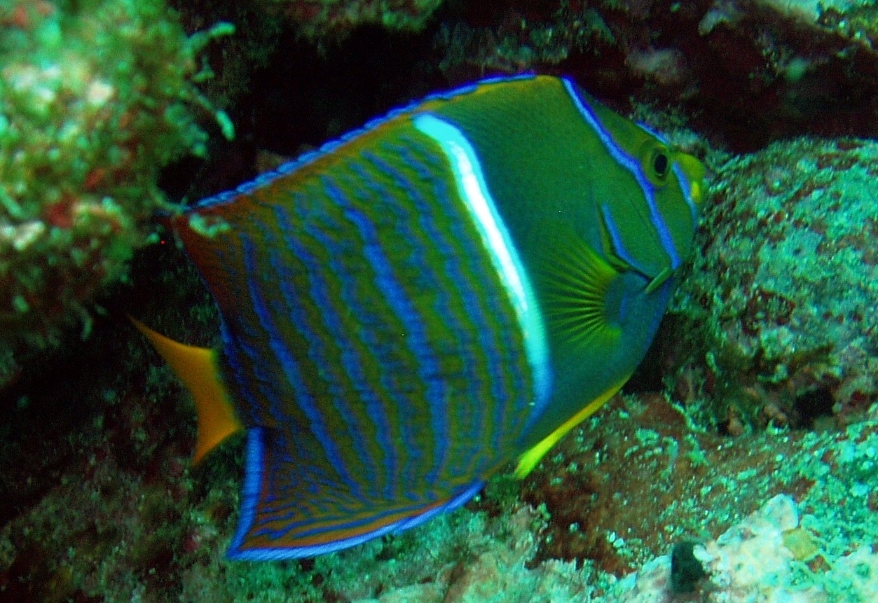 Passer Angelfish(Juvenile) in natural habitat Sea of Cortez, San Pedro Island, Mexico